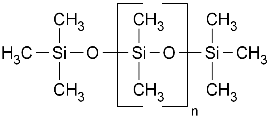 lewis formula for poly(dimethylsiloxan) often called dimethylpolysiloxan or dimeticon